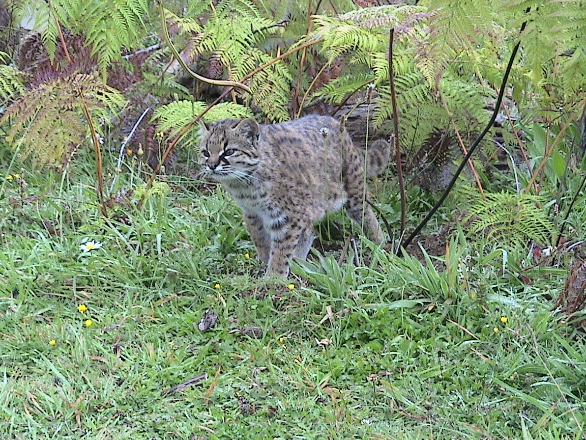 Guigna (Leopardus guigna)